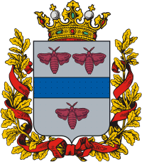 Coat of arms of Fergana Province, Russian Empire.